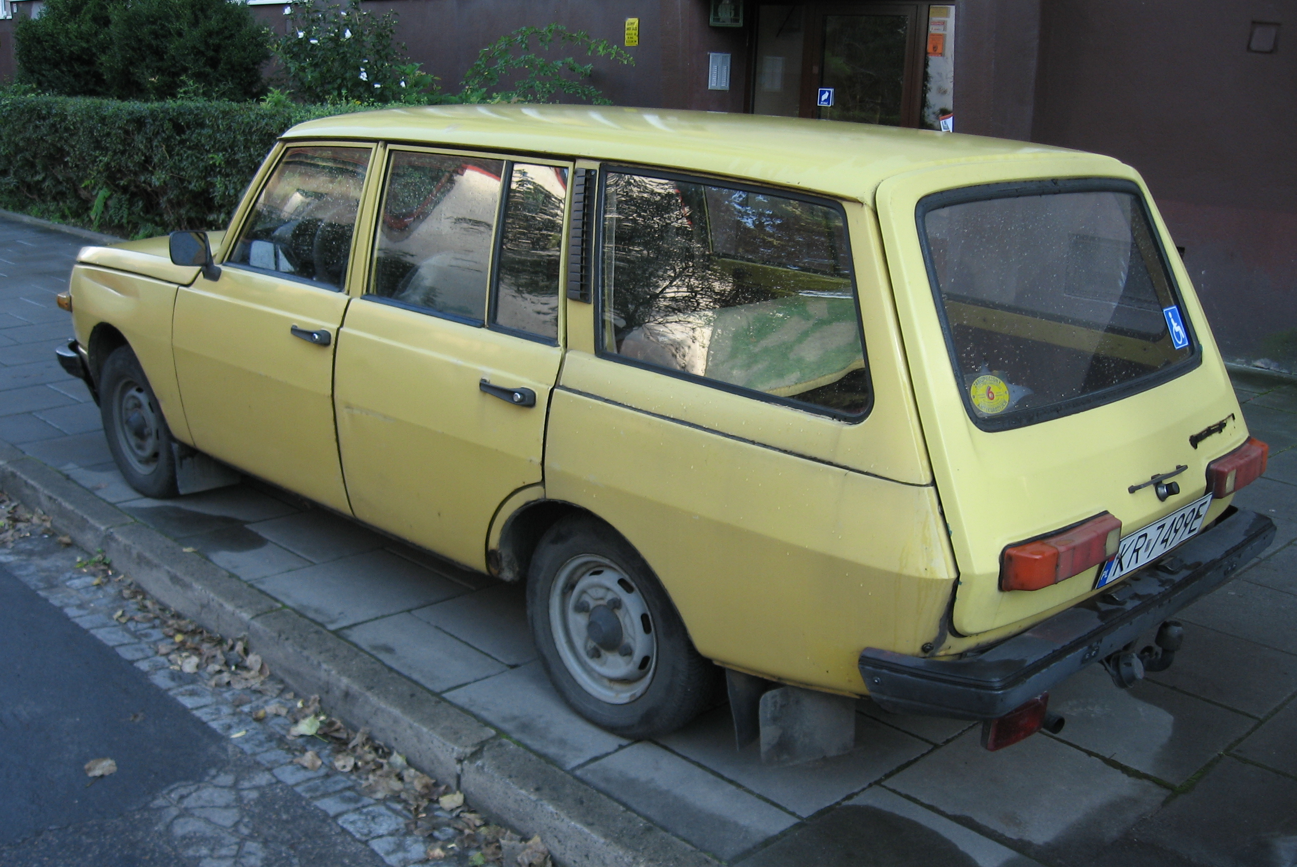 Wartburg 353S Tourist car in Kraków, Poland.